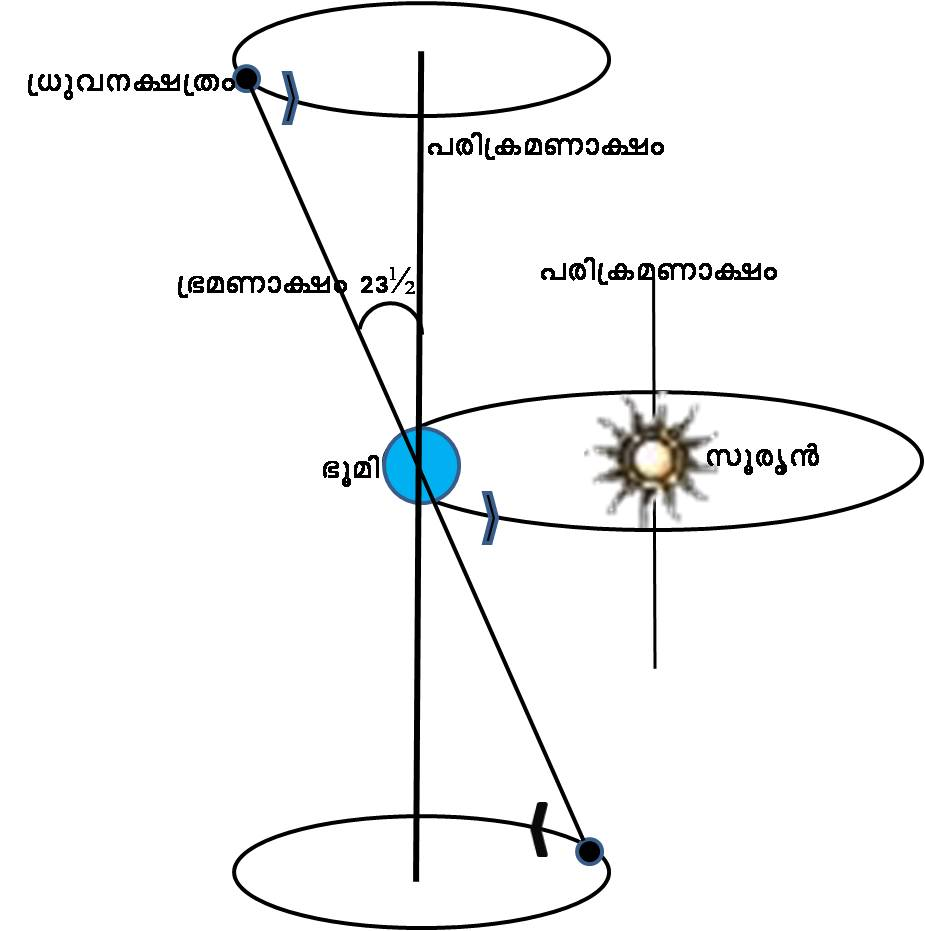 Picture showing position of pole star.